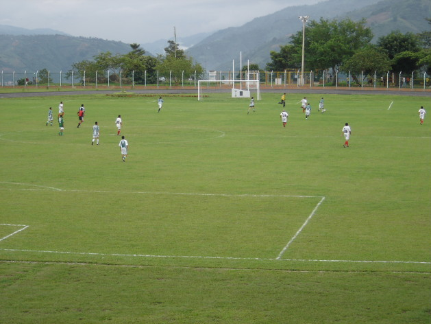 Universidad Industrial de Santander - Football Soccer Camp